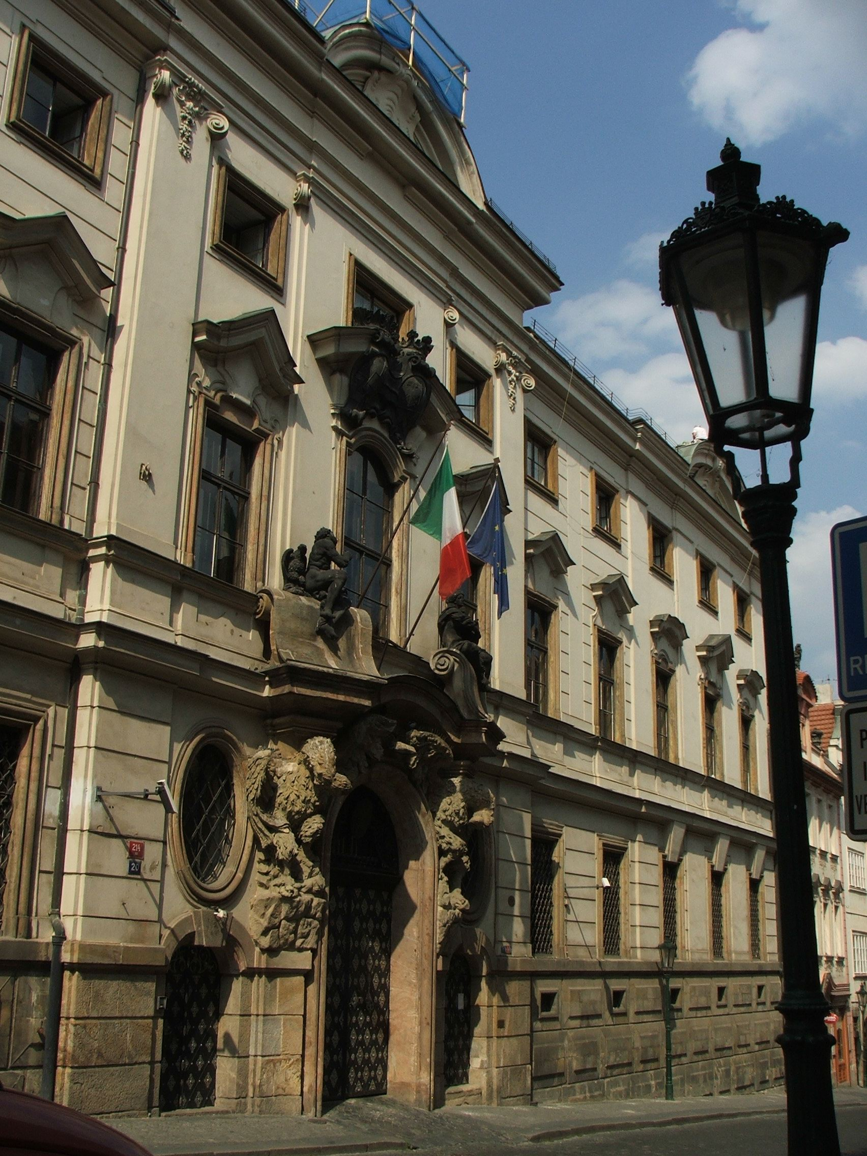 Thun-Hohenstein Palace in Prague, Malá Strana, Embassy of Italy in Czechia.